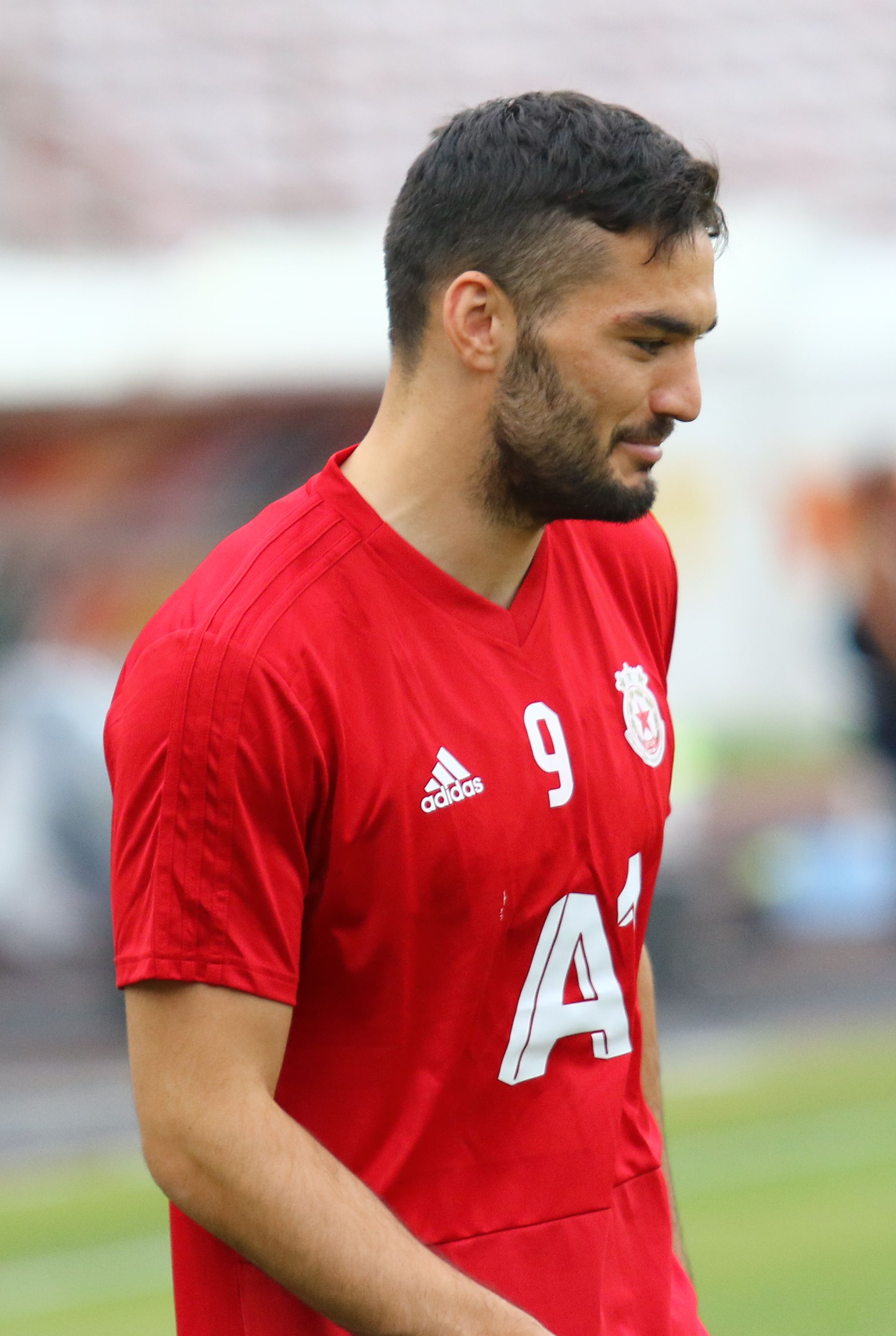 Anthony Paul Watt (born 29 December 1993) is a Scottish professional footballer who plays as a forward for CSKA Sofia in the Bulgarian First League.